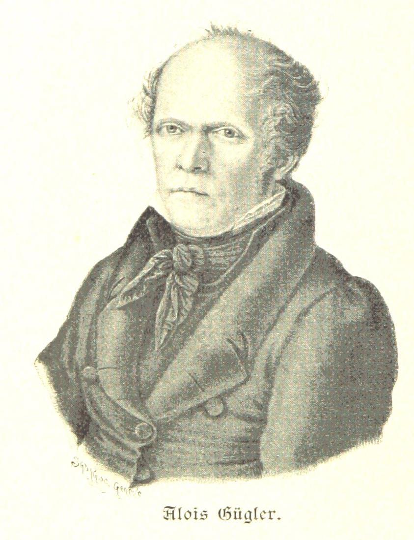 Alois Gügler (en. Joseph Heinrich Aloysius Gügler) Image taken from: Title: "Die Schweiz im neunzehnten Jahrhundert. Herausgegeben von schweizerischen Schriftstellern unter Leitung von P. Seippel" Author: SEIPPEL, Paul. Shelfmark: "British Library HMNTS 9305.h.2." Volume: 02 Page: 108 Place of Publishing: Lausanne Date of Publishing: 1899 Issuance: monographic Identifier: 003330970 Explore: Find this item in the British Library catalogue, 'Explore'. Download the PDF for this book (volume: 02) Image found on book scan 108 (NB not necessarily a page number) Download the OCR-derived text for this volume: (plain text) or (json) Click here to see all the illustrations in this book and click here to browse other illustrations published in books in the same year.